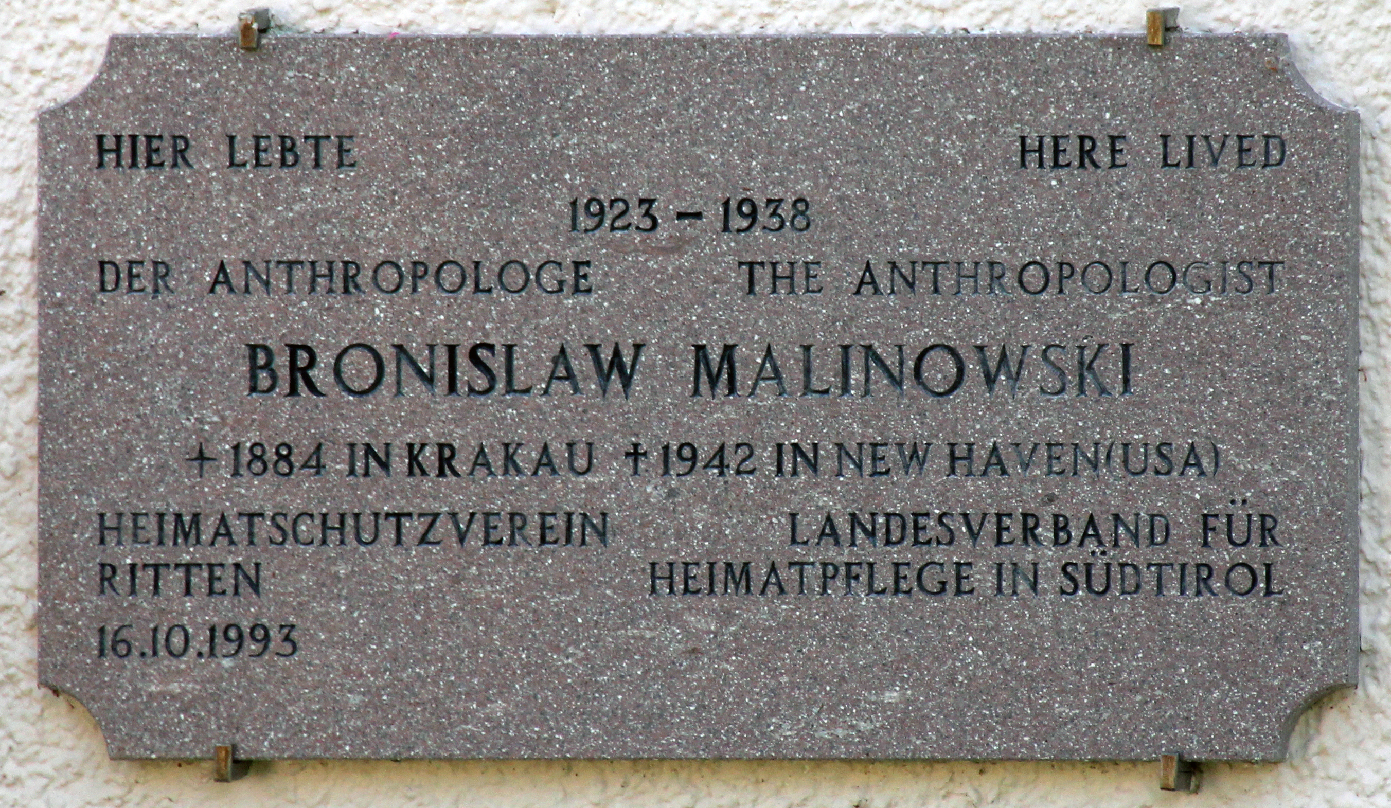 Memorial plaque, Bronislaw Malinowski, Waldweg 3, Oberbozen, Italy